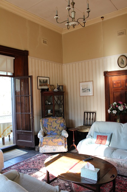 Stroud House (Stroud, New South Wales)